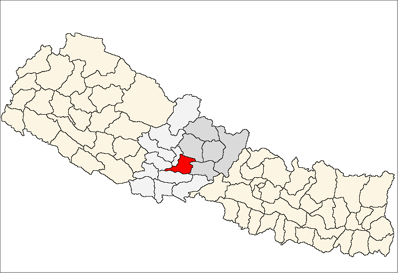 FrenchCarte de localisation dudistrict de Syangja(wp-FR),au Népal (wp-FR).EnglishLocation map ofSyangja District(wp-EN),in Nepal (wp-EN).